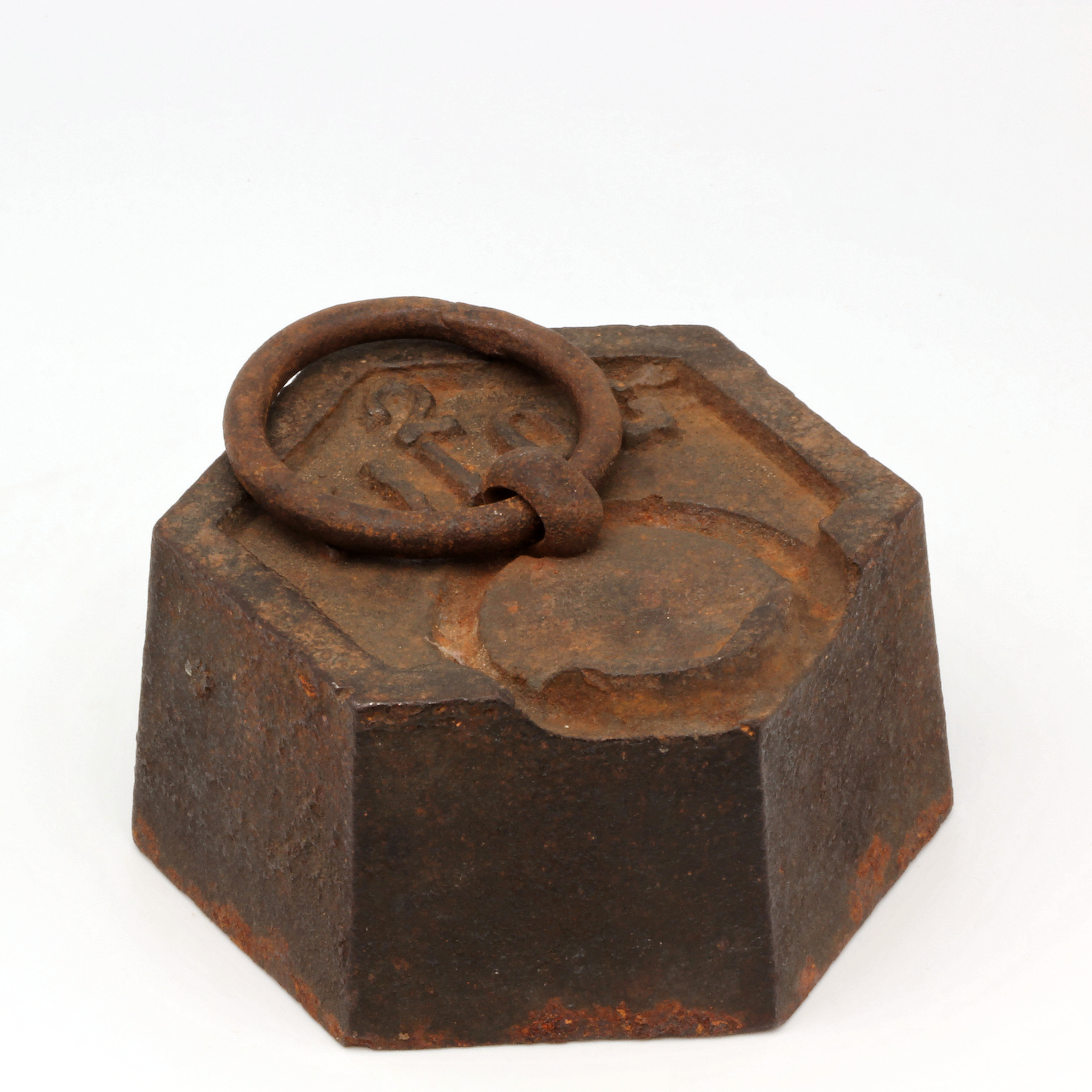 Weight for balances